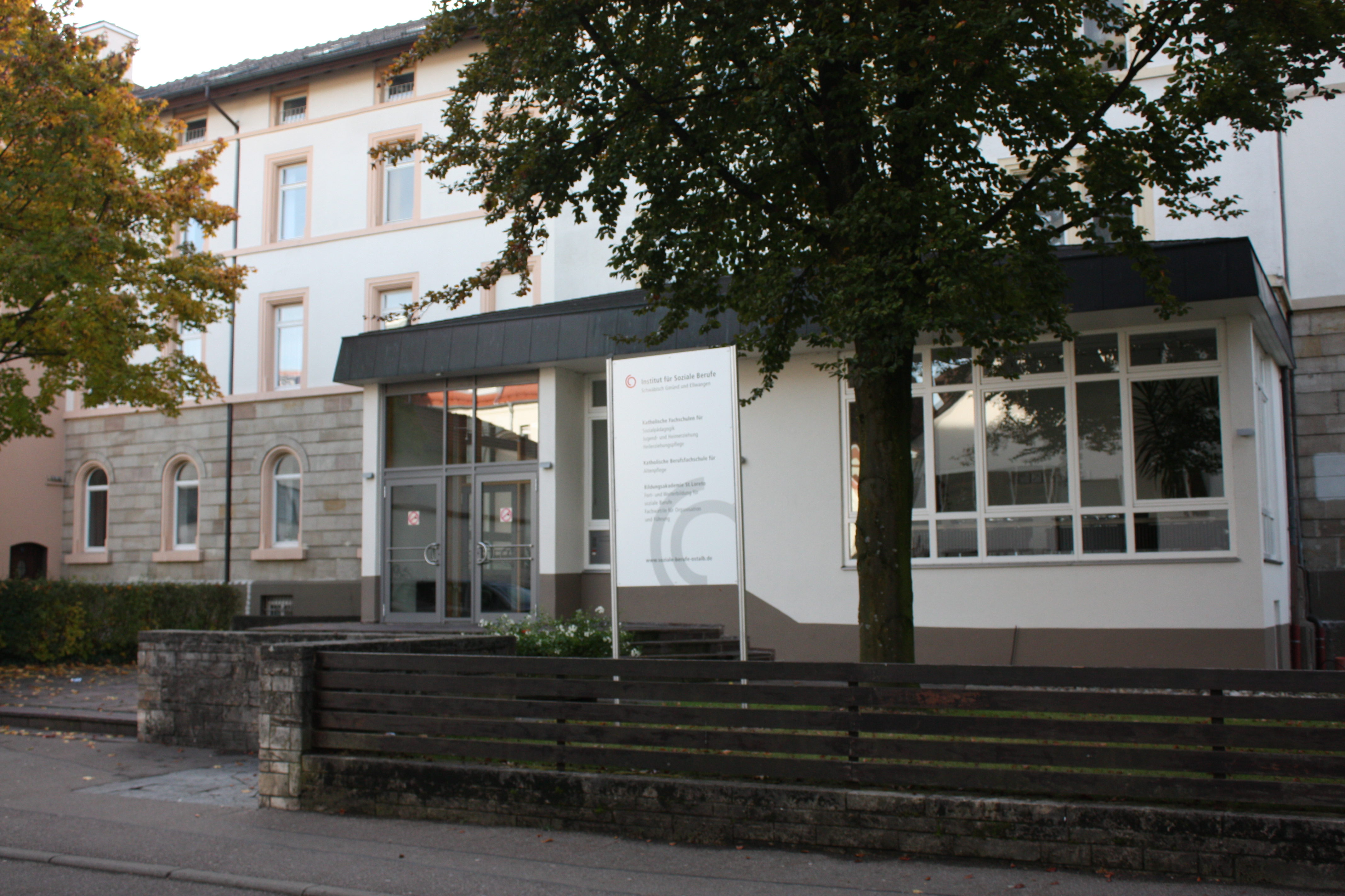 Sankt Loreto (Schwäbisch Gmünd), east facade and entrance of "Institut für sozialpädagogische Berufe"